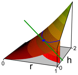 Visualizazion of the method of Lagrange multipliers in 2D, function displayed as 3D-plot.